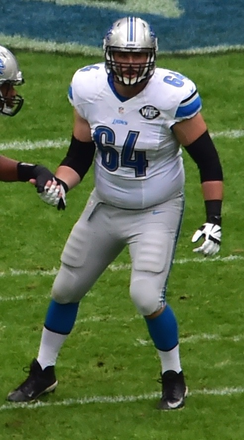 Detroit Lions vs Atlanta Falcons - Wembley 2014